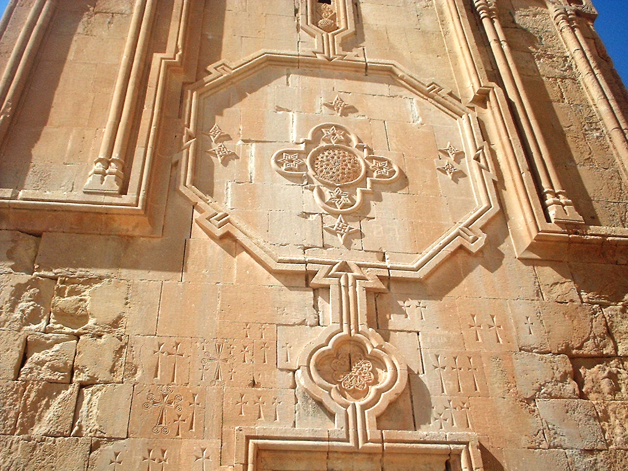 Noravank